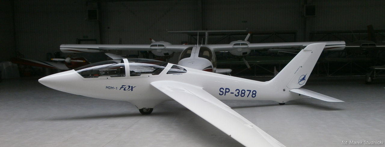 Zakłady Lotnicze Margański&Mysłowski MDM-1 Fox aerobatic glider